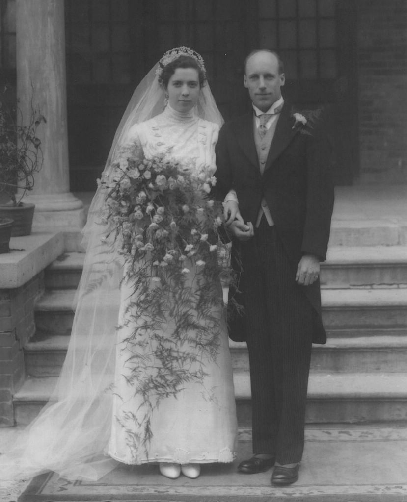 Eric Liddell and Florence Mackenzie wedding in Tianjin in 1934